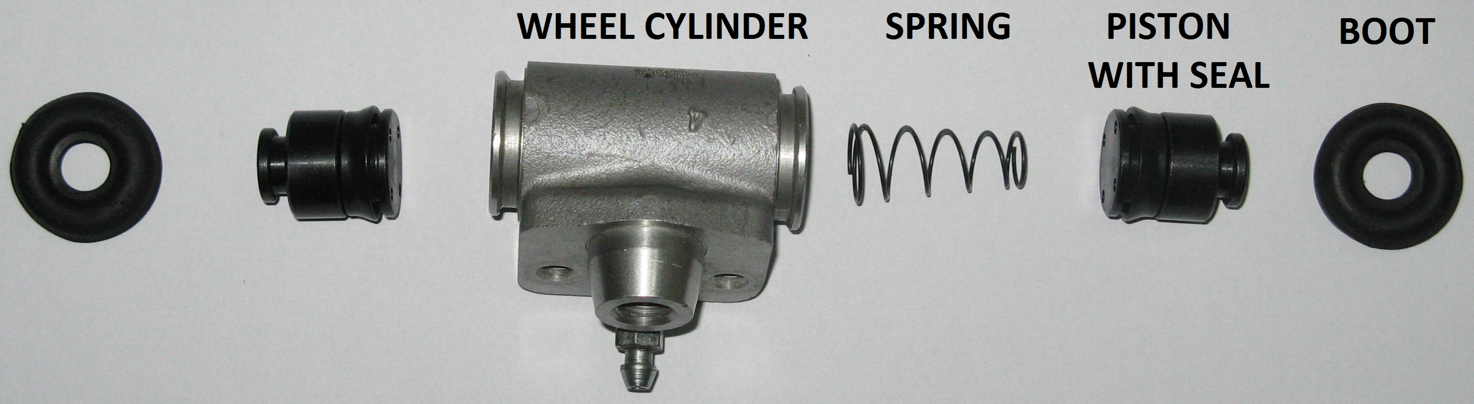 This image shows a disassembled wheel cylinder depicting the child parts